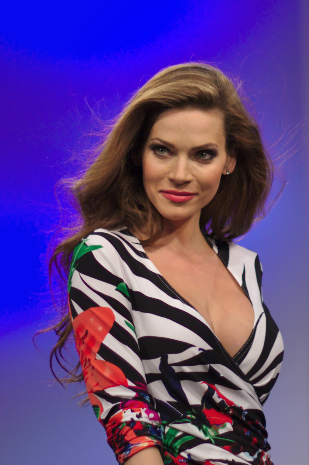 Andrea Verešová at Olympia Fashion Show 2014 (Brno)